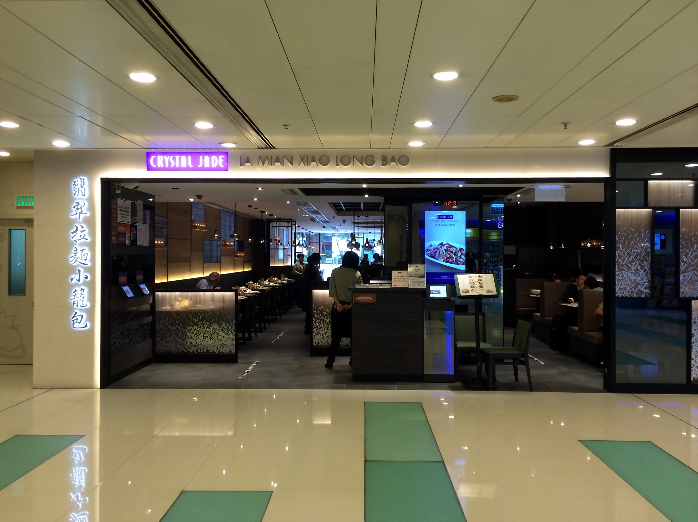 Crystal Jade La Mian Xiao Long Bao in New Town Plaza